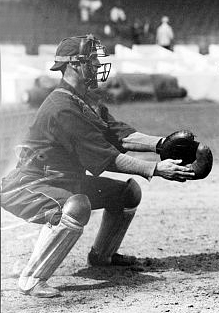 Walt "Red" Kuhn catching during a practice of the 1914 Chicago White Sox.